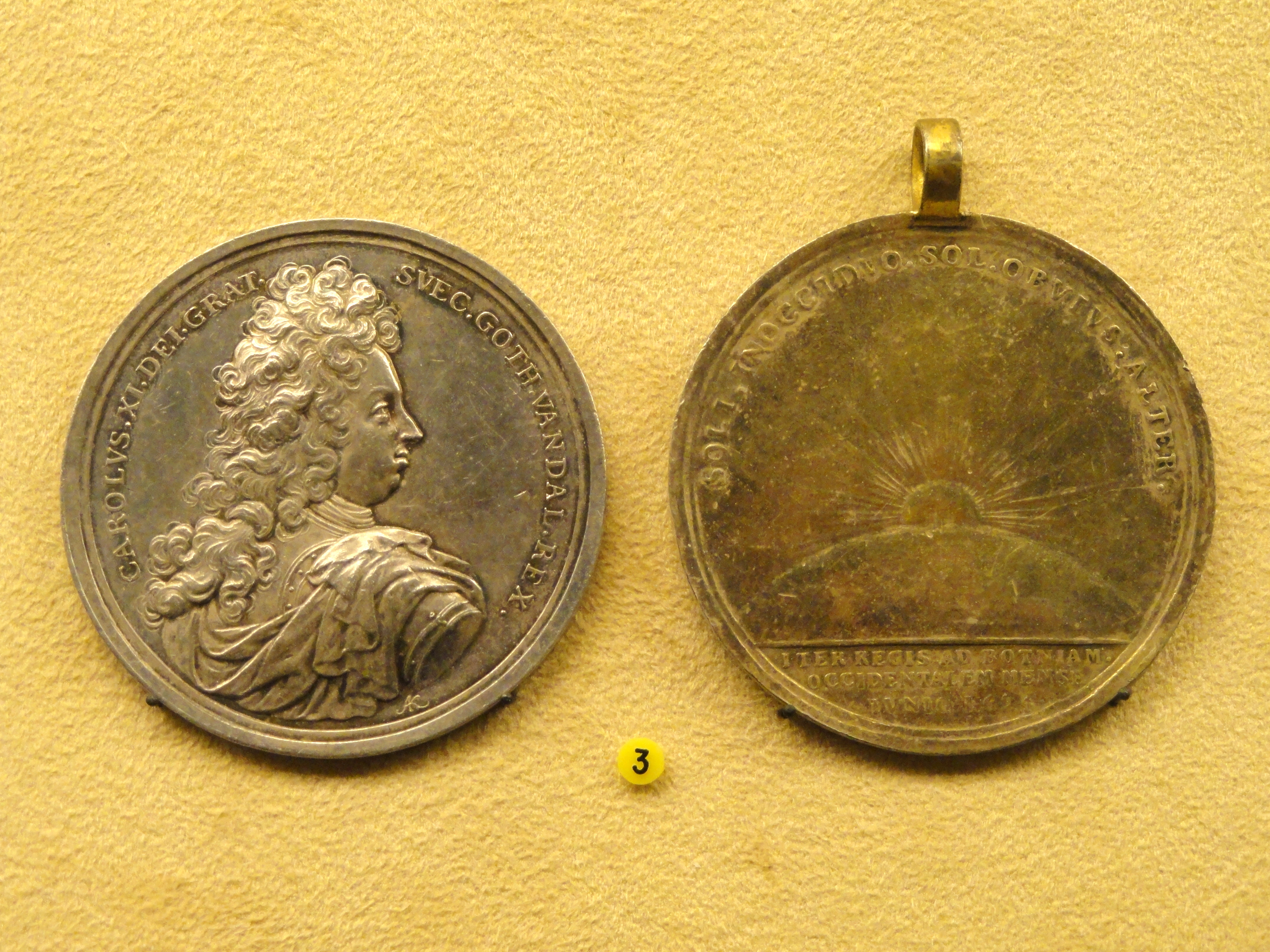 Coin / medal in the National Museum of Finland, Helsinki, Finland. This artwork is in the public domain because the artist(s) died more than 70 years ago.